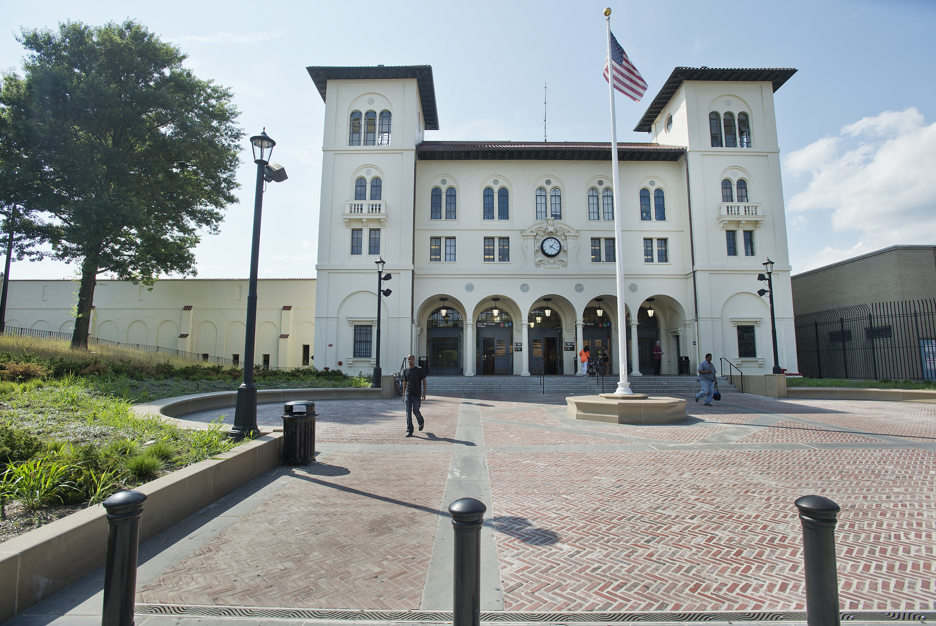 The MTA’s top-to-bottom rehabilitation of the East 180th Street 2 & 5 subway station has recaptured the grandeur its original builders had in mind when the century-old North Bronx transit terminal served as the administration building for the old New York, Westchester and Boston Railway system. The two-year, $66.5 million project breathed new life into the unique subway station that serves the 2 and 5 lines and is a major link to two major Bronx attractions – the Bronx Zoo and the New York Botanical Gardens. Designed and built during a period when riding the rails was a grand experience rather than bookends to a work day, the structure is a handsome example of early 20th Century architectural design that has long stood as a community landmark. Photo: Metropolitan Transportation Authority / Patrick Cashin.